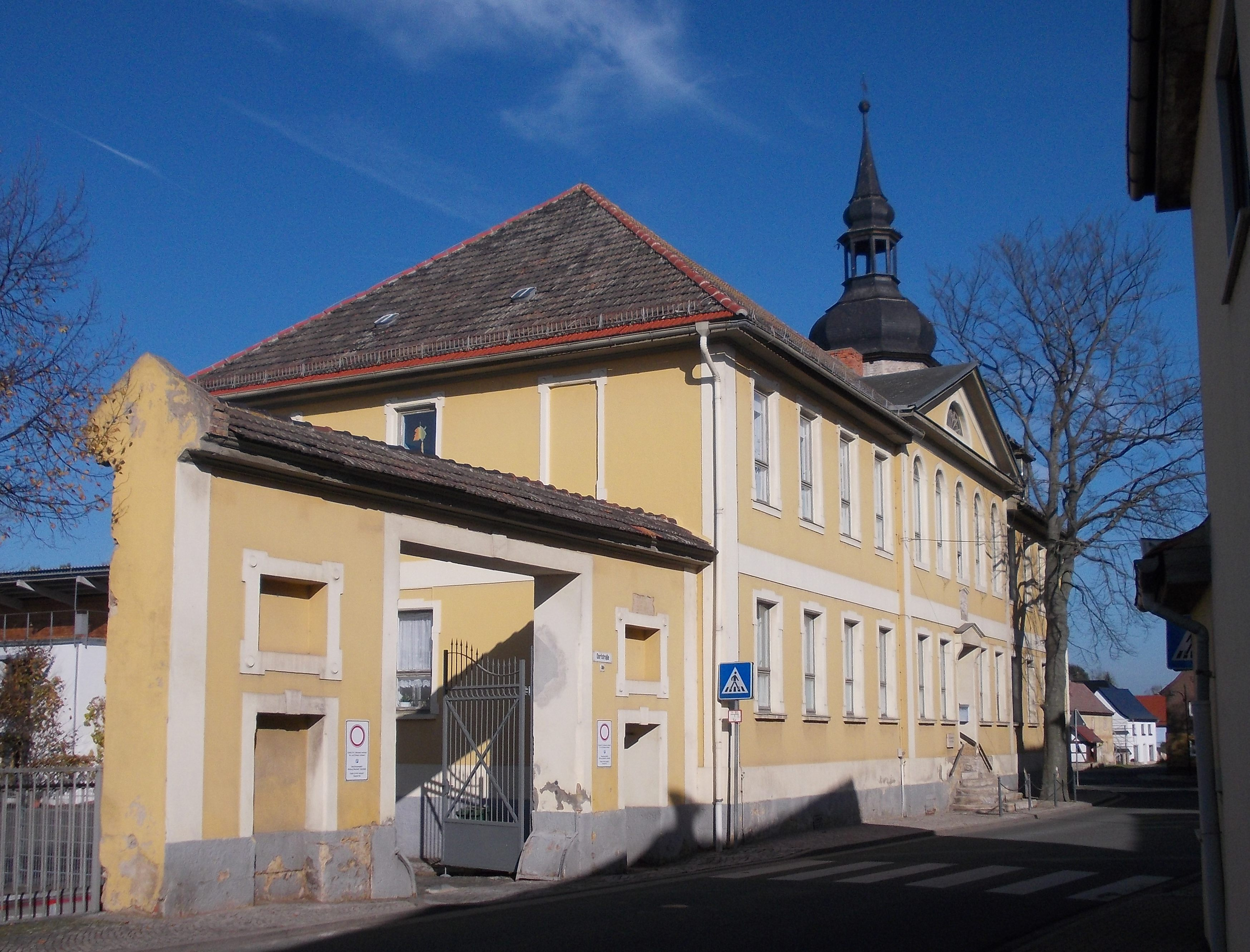 Niedertrebra manor house (Weimarer Land district, Thuringia)